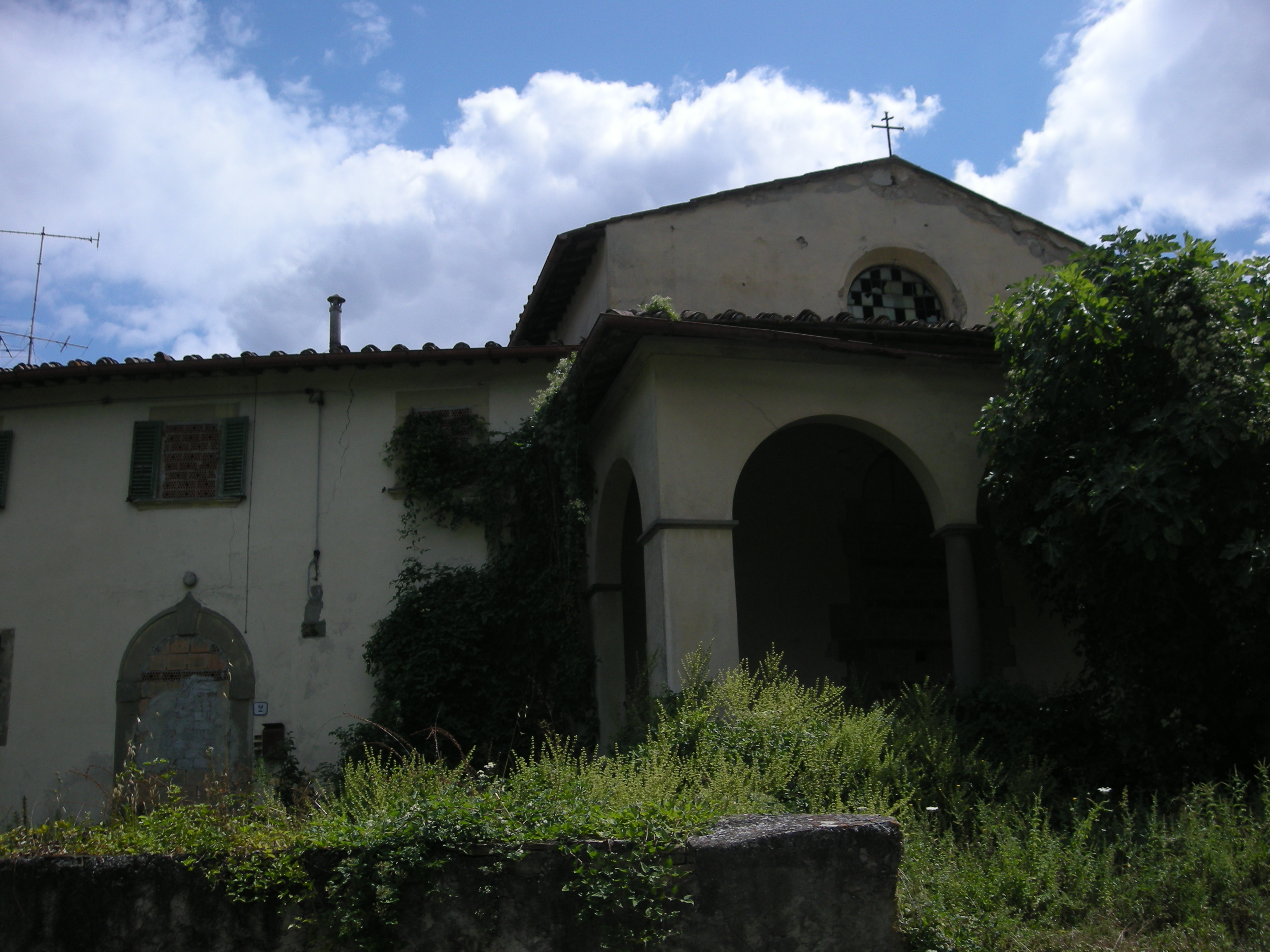 Lastra a Signa (Italy) - Santa Maria a Lamole